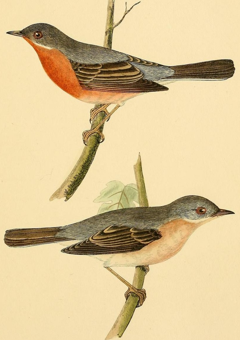 Sylvia cantillans